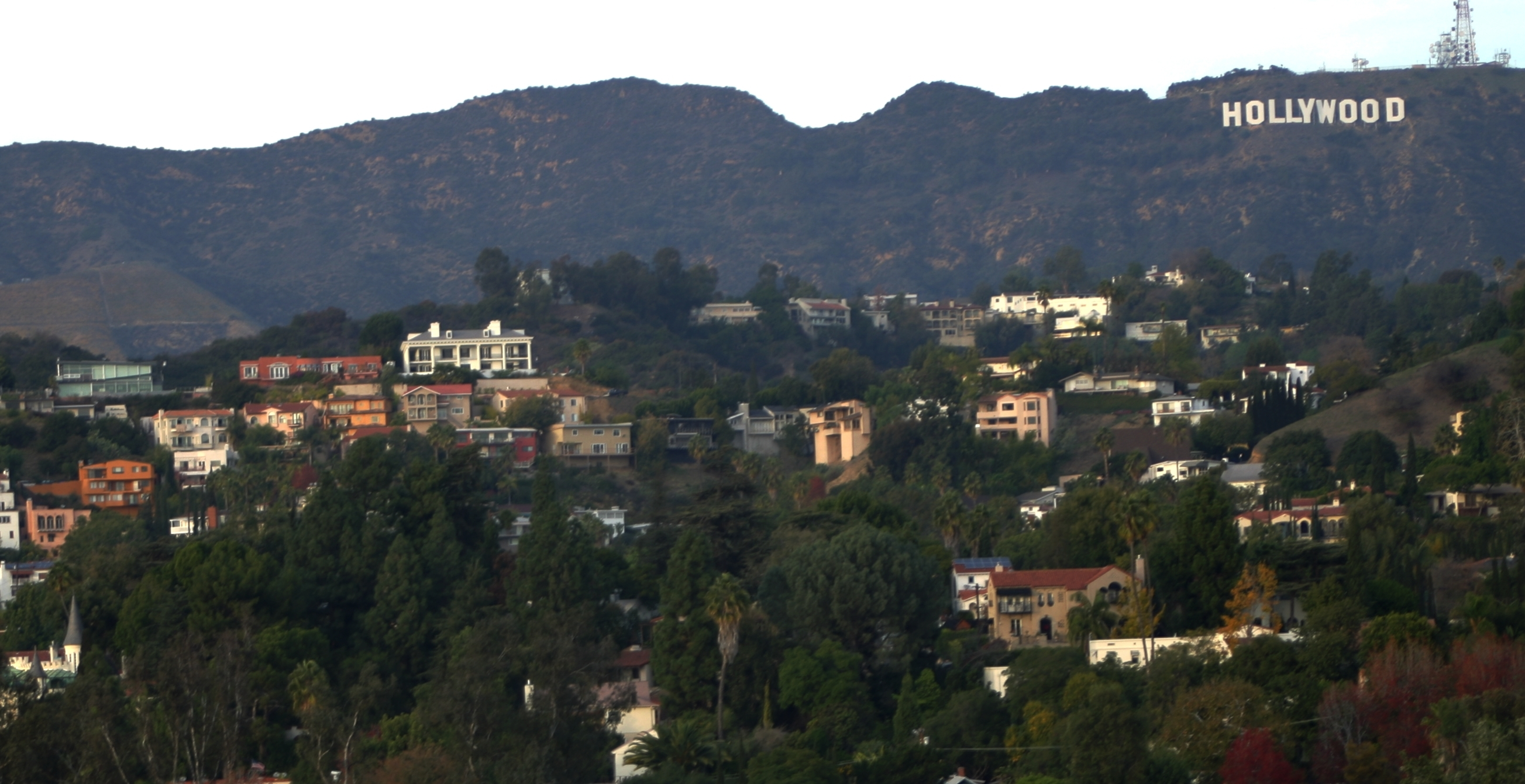 Hollywood Hills with Hollywood Sign — Los Feliz district, Los Angeles.